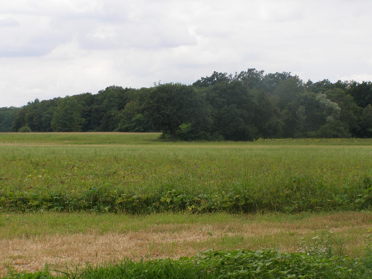 Field in Lukačevci, Prekmurje